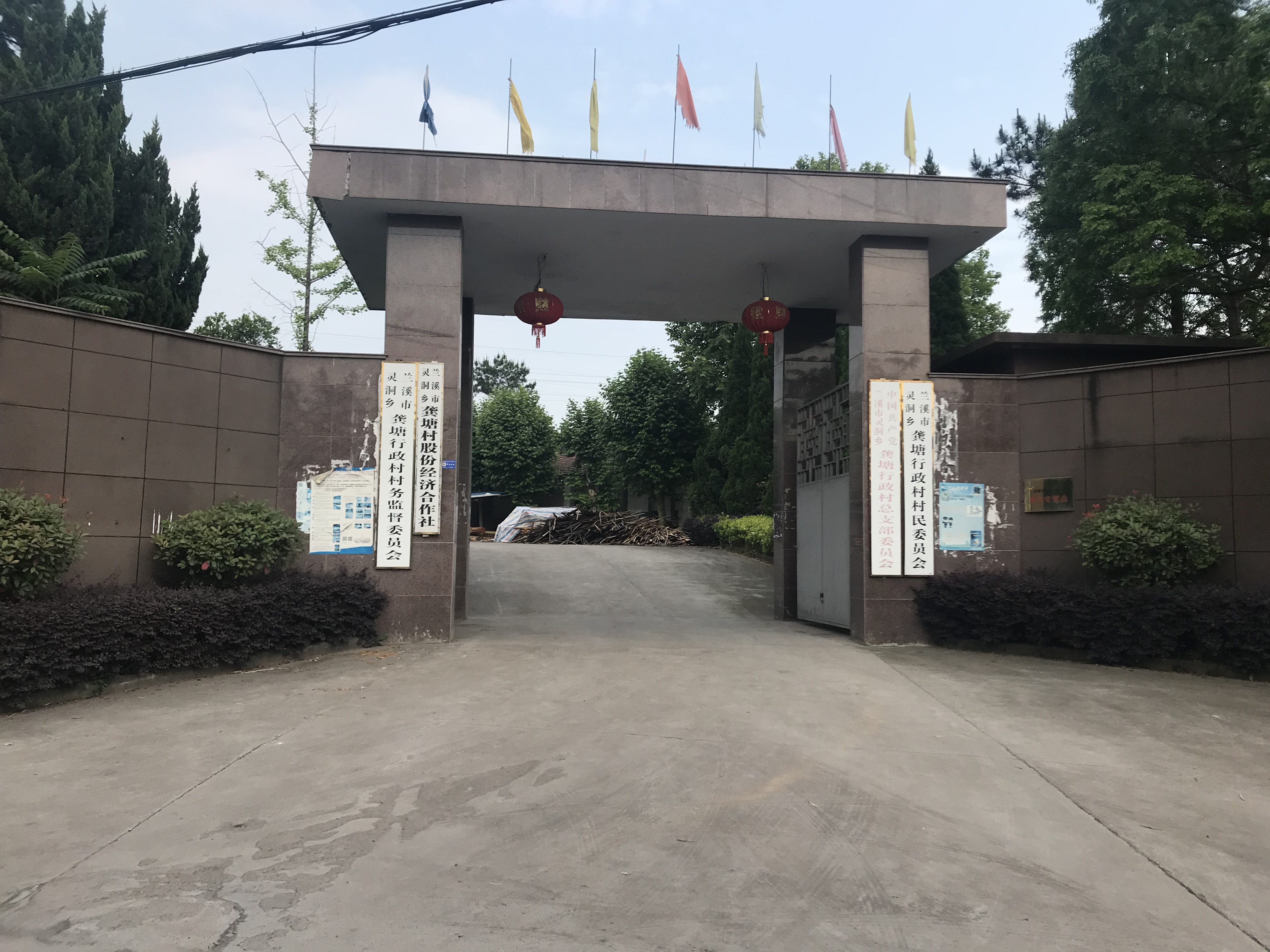 201805 Government of Gongtang Village, located on the south side of Lingdong-Magongtan Road